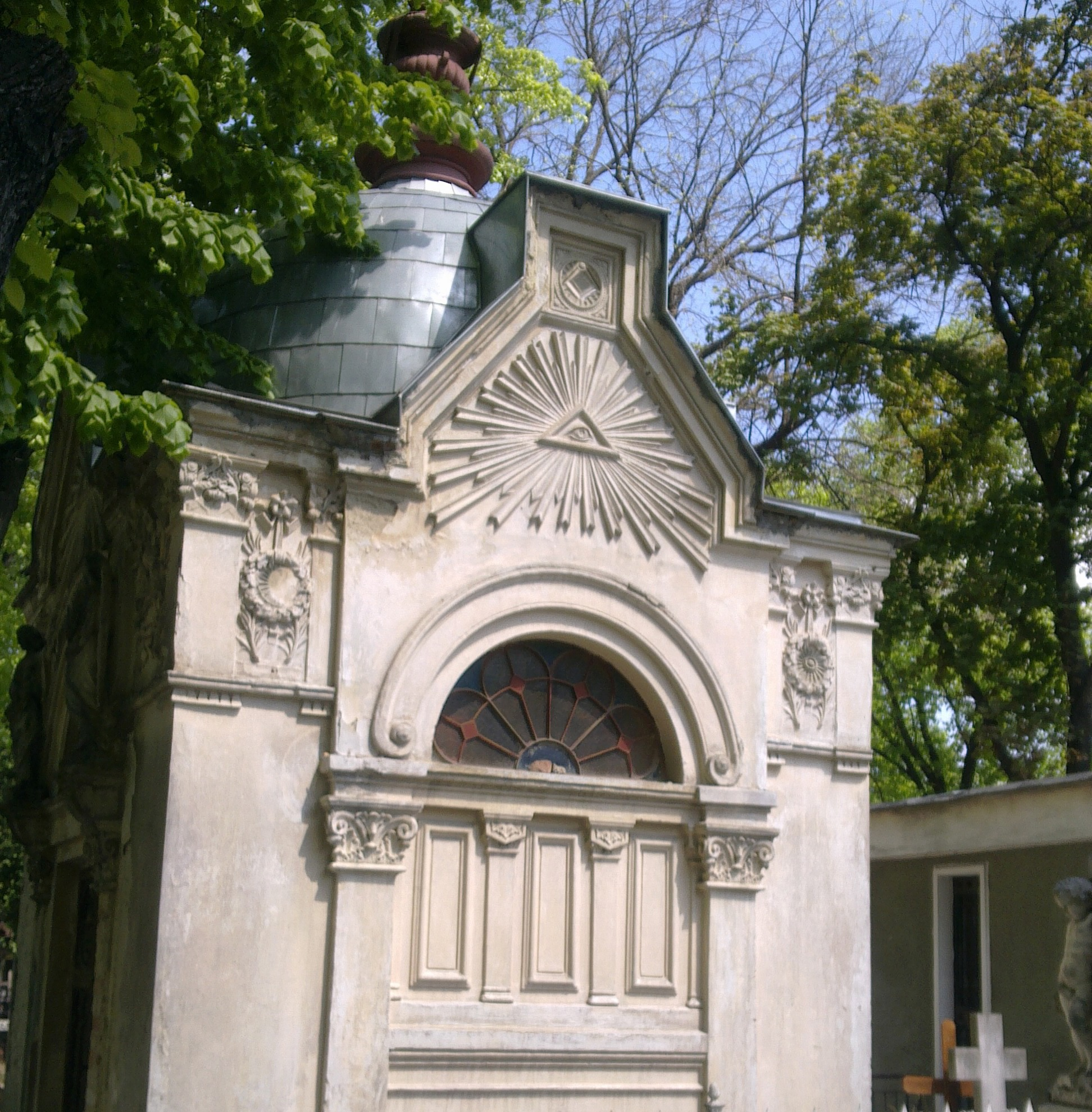 Masonic tomb monument in Bellu cemetery (Bucharest)